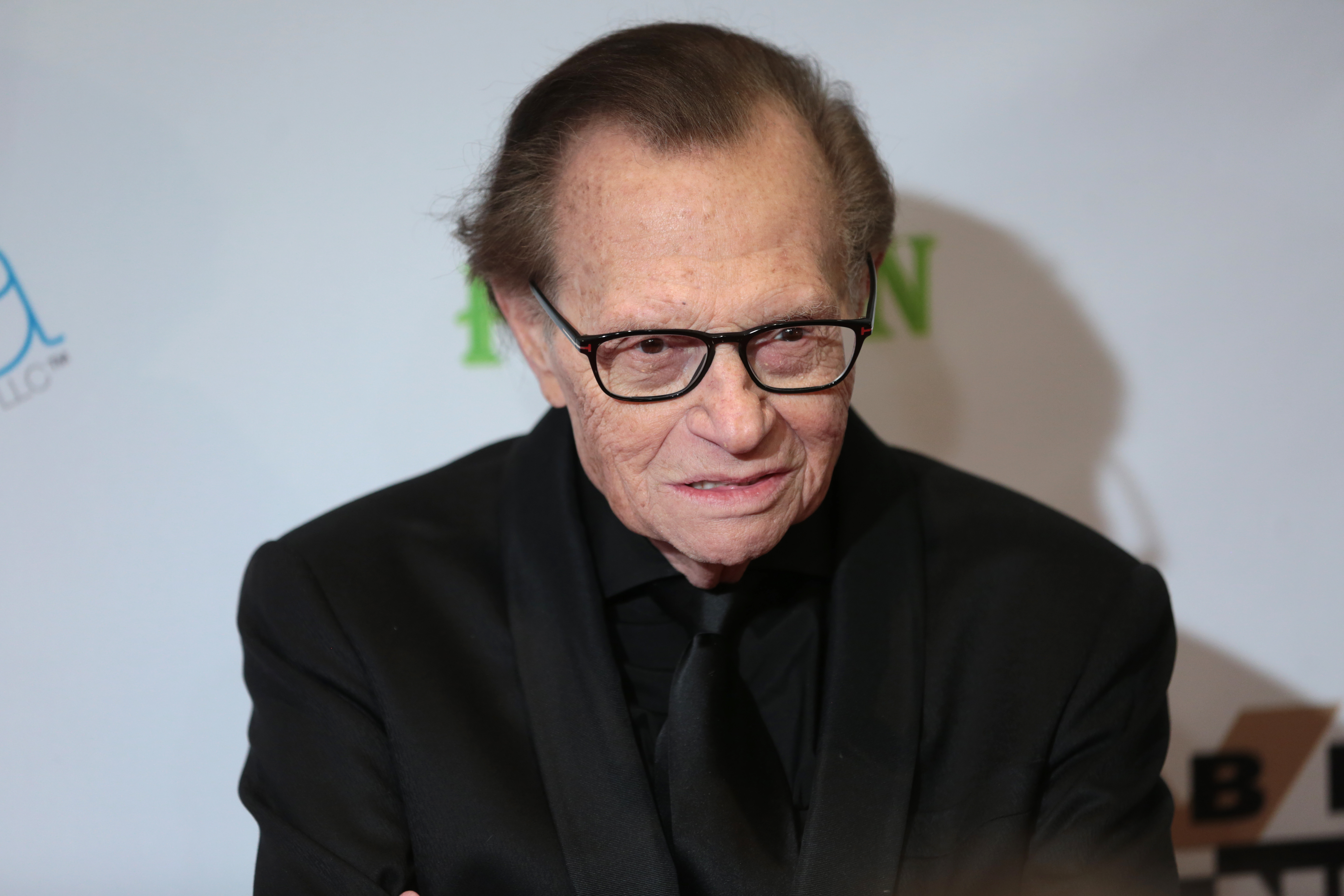 Larry King on the red carpet at Celebrity Fight Night XXIII at the JW Marriott Desert Ridge Resort & Spa in Phoenix, Arizona.